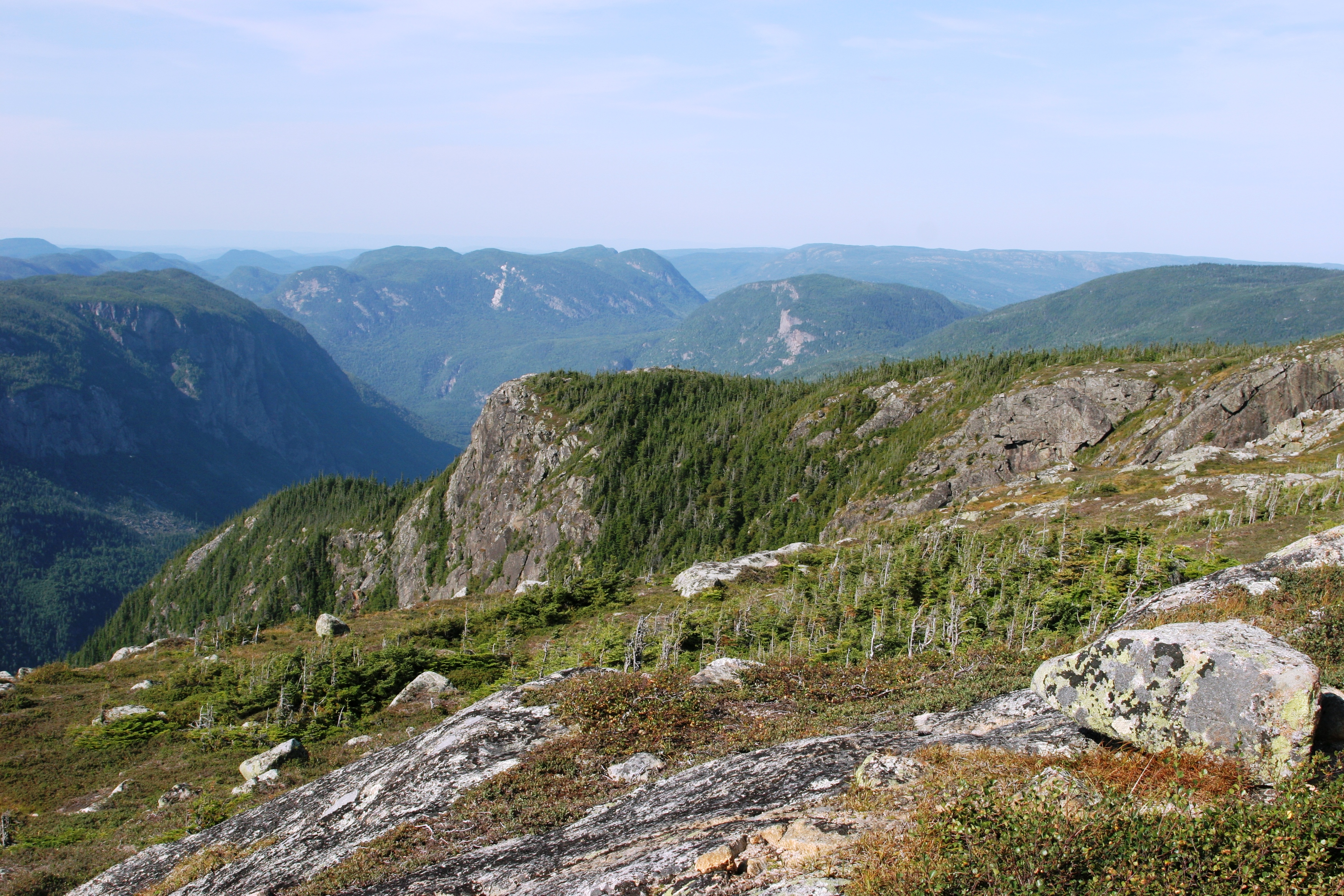 Scenery from the top of "l'acropole des draveurs" near Malbaie river in the Hautes Gorges park. Charlevoix, Québec, Canada.